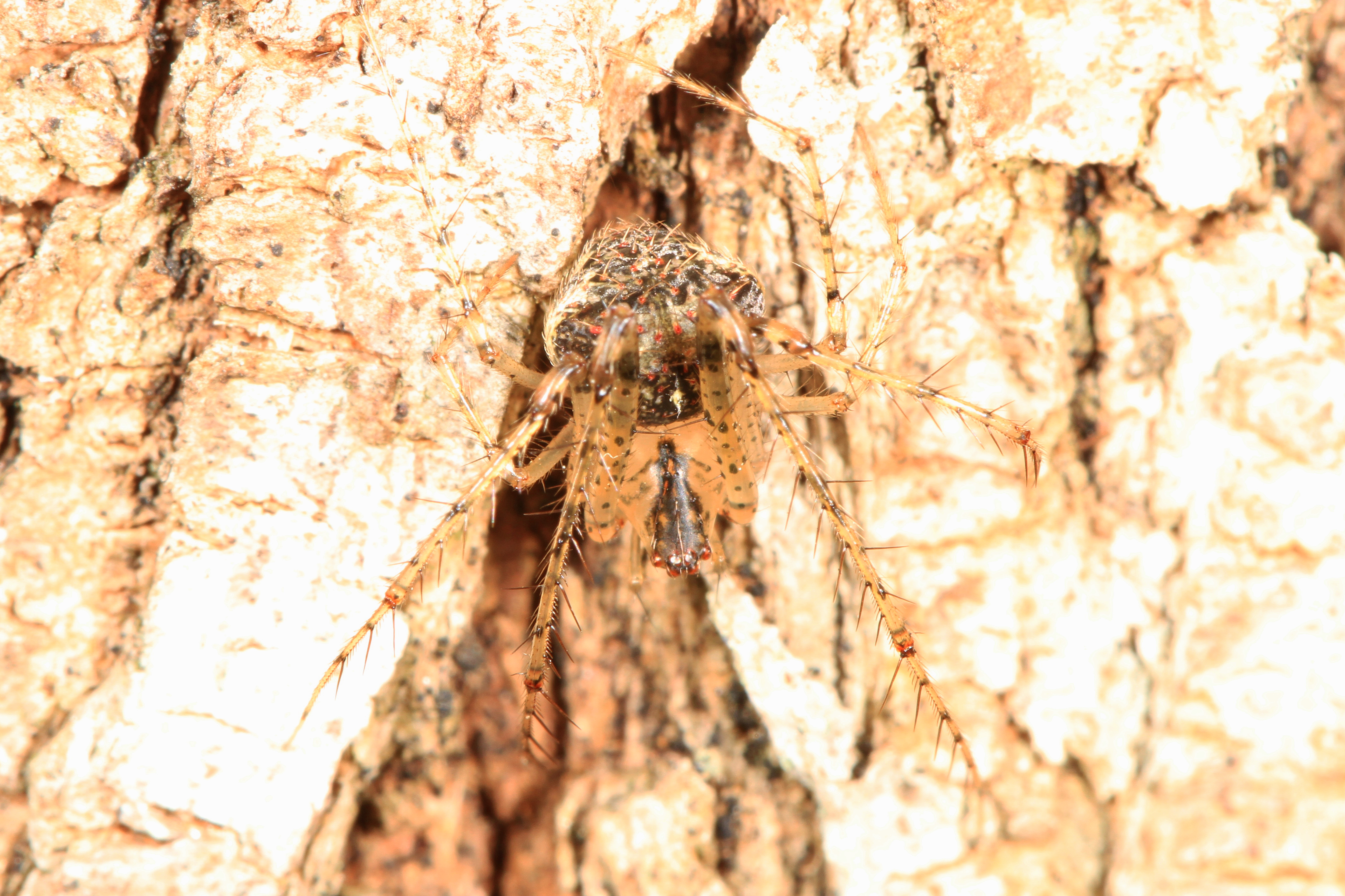 Yesterday I saw a snake, and today I saw a spider. Spring is coming early this year! This spider is really well camouflaged.